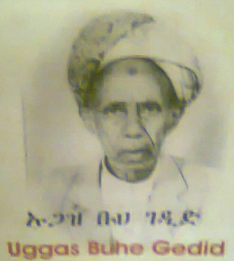 Uggas Buhe Gedid (Somali: Ugaas Buux) as described on the picture. The historical Ughaz of the Gurgura clan of Somalis. One of the most notable figures of Dire Dawa.